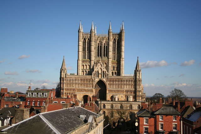 Lincoln Cathedral from the Castle east gate. Looking across the rooftop of the Judges Lodgings 46641 to the west front of the cathedral from the east gate of the castle